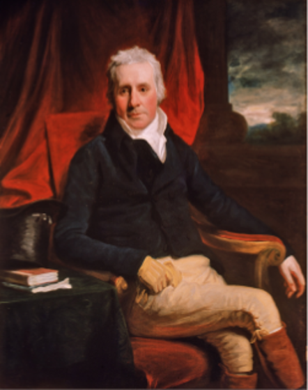 Thomas Harris, courtesy of Warren Oakley, Thomas Jupiter Harris: Spinning Dark Intrigue at Covent Garden Theatre, 1767-1820 (Manchester: Manchester University Press, 2018)